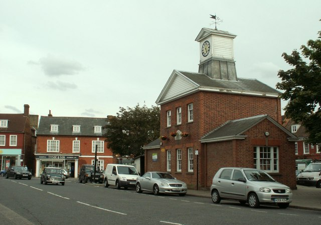 The Market House Clock Tower